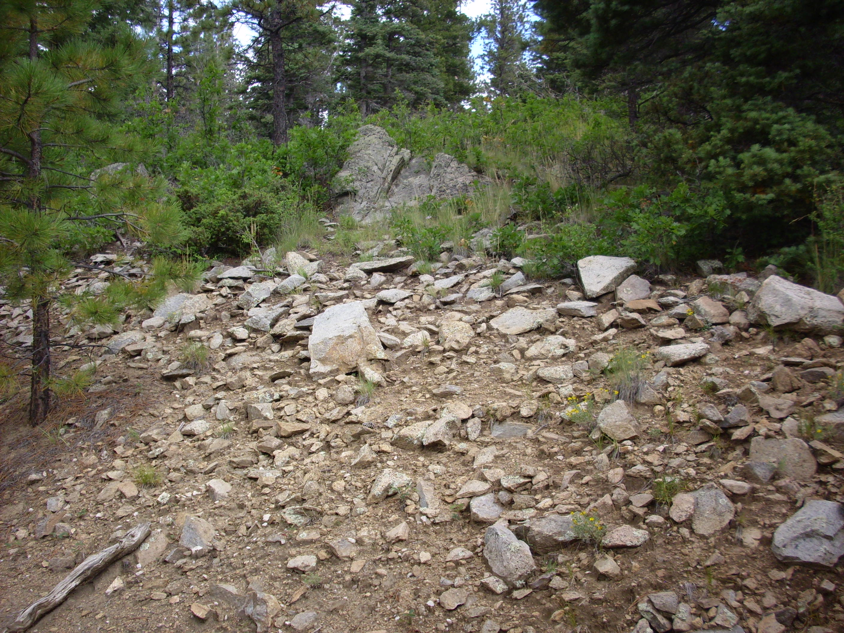 This image shows an exposure of the Maquinitas Granodiorite, of Statherian age, on Hopewell Ridge in the northern Tusas Mountains of New Mexico.